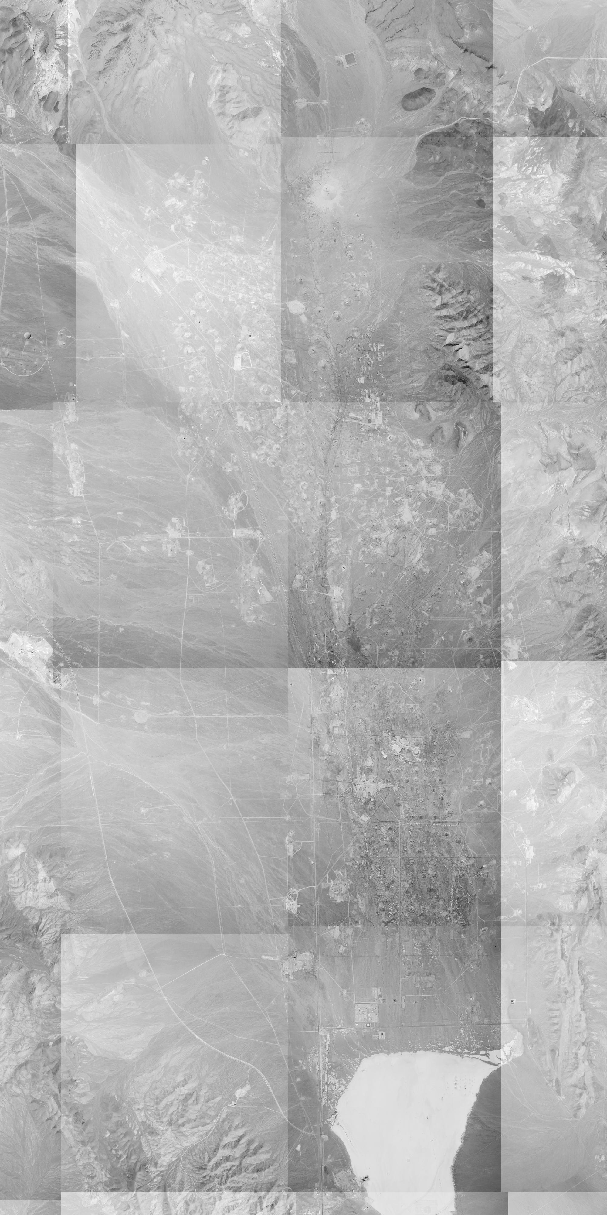 Image of Nevada Test Site made from usaphotomaps and USGS imagery. Sedan crater is the topmost crater in the middle of the image partially enclosed by a circumferential access road.